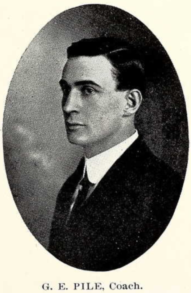 Photograph of G. E. Pile, coach of the U. Fla. football team